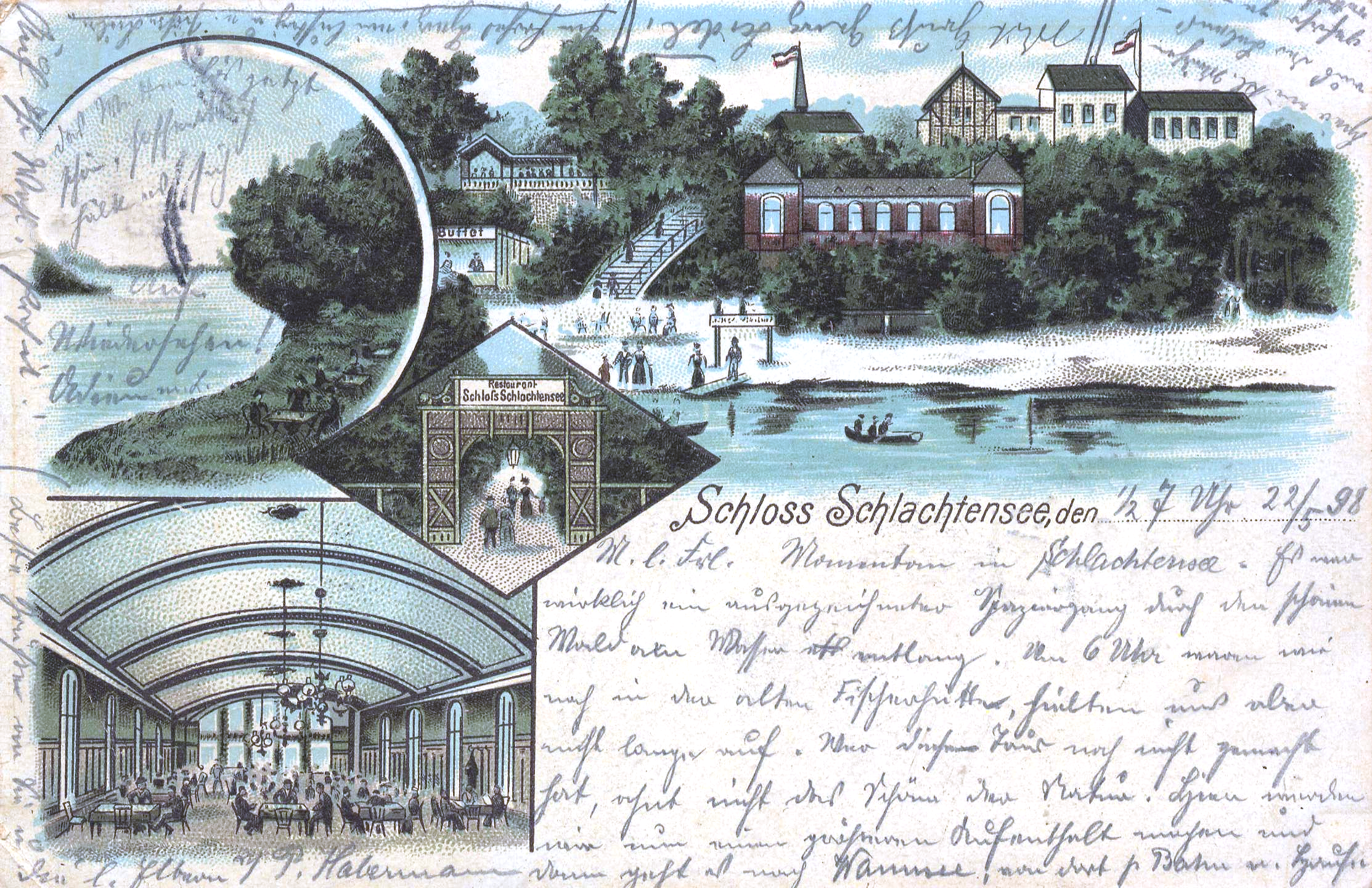 Postcard of 1898 showing Schloss Schlachtensee, a café and restaurant at Schlachtensee beach in Zehlendorf near Berlin, Germany (today part of Berlin), planned for 2,000 guests by its owner Friedrich „Fritz“ Carl Leopold Räntsch (7 Oct 1844 – 26 Oct 1891), a Berlin-based brewery director.